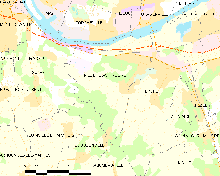 Map of French municipality Mézières-sur-Seine